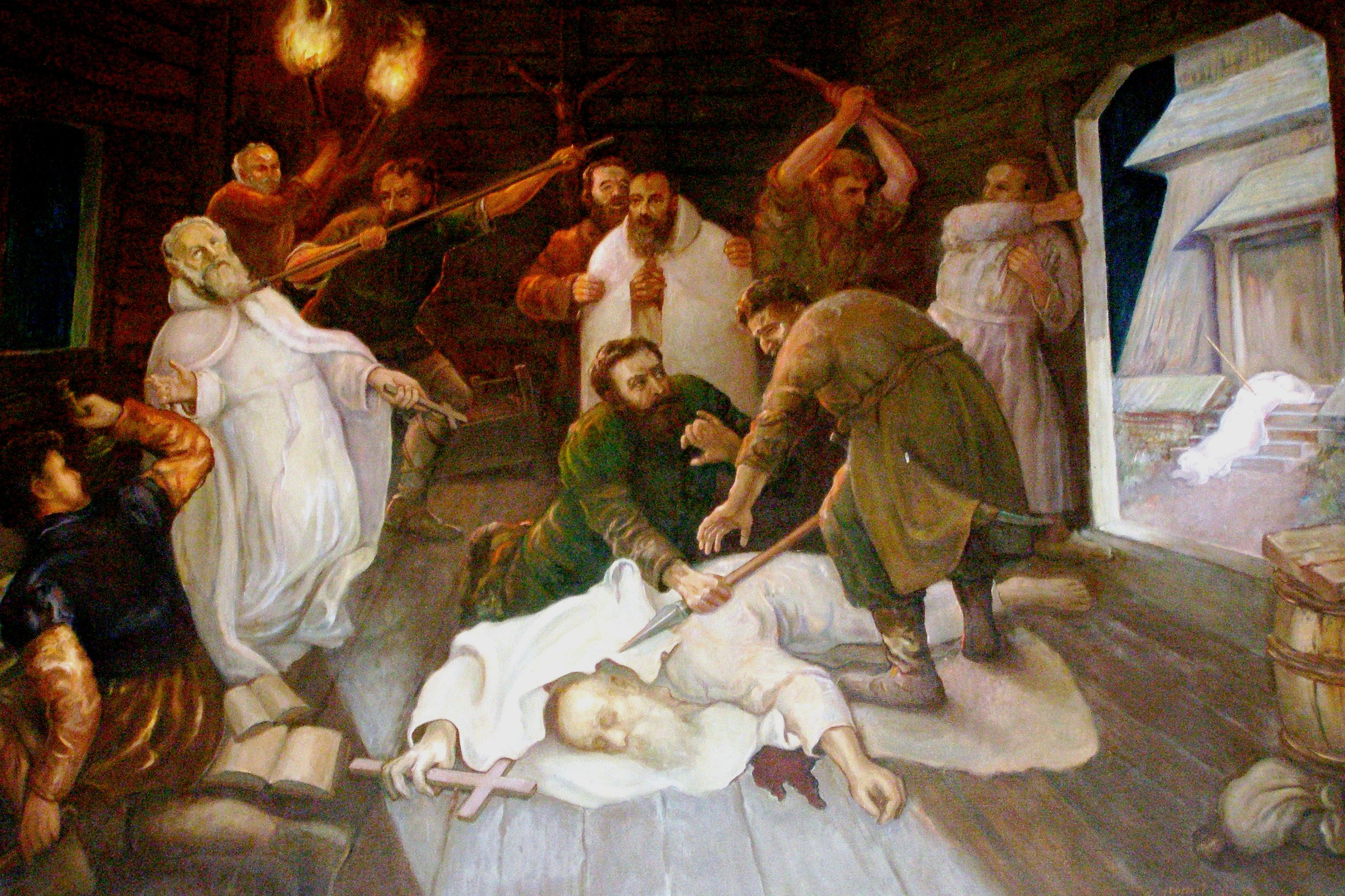 Benedykt, Jan, Mateusz, Izaak i Krystyn - The five brothers martyrs. The first martyrs of Poland (11 November 1003) - founding hermitage in Bieniszew